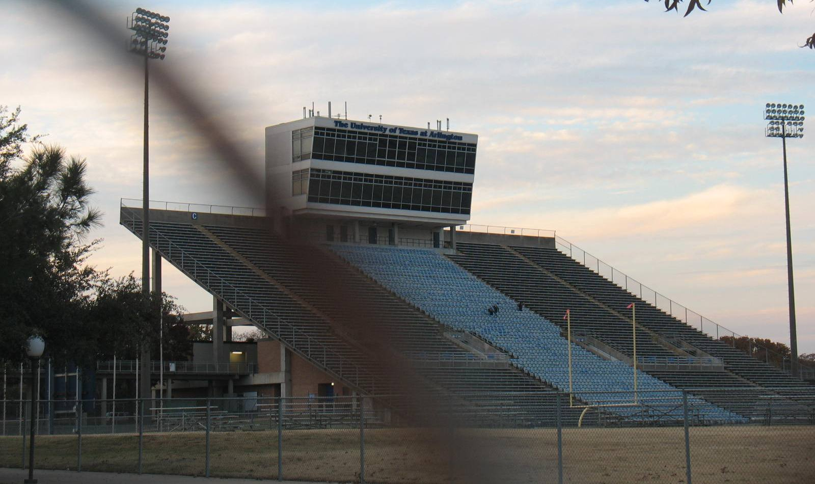 The home section of Maverick Stadium, taken through the chain link fence on the south side